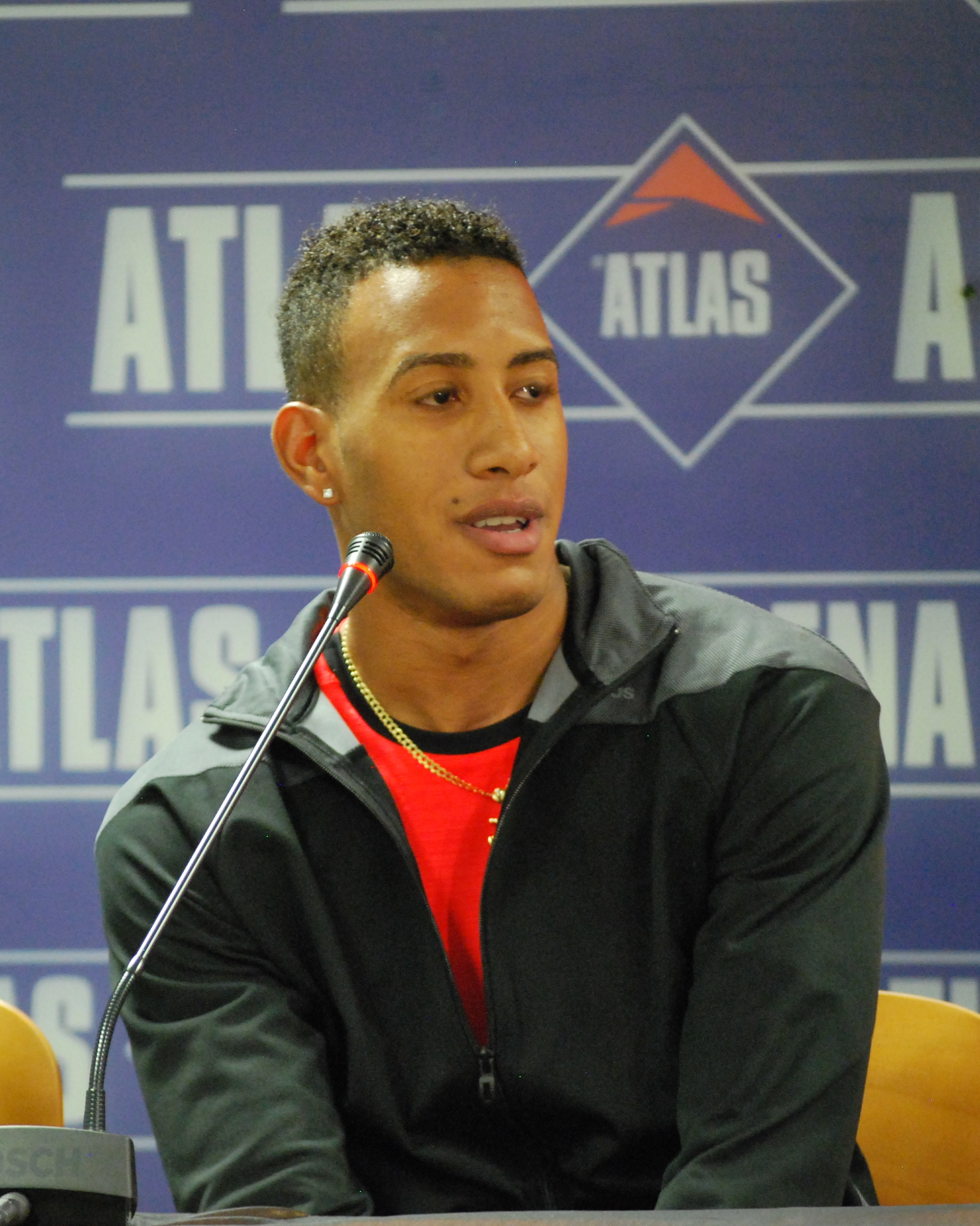 Pedros Cup 2015 Łódź, Orlando Ortega, hurdler from Cuba